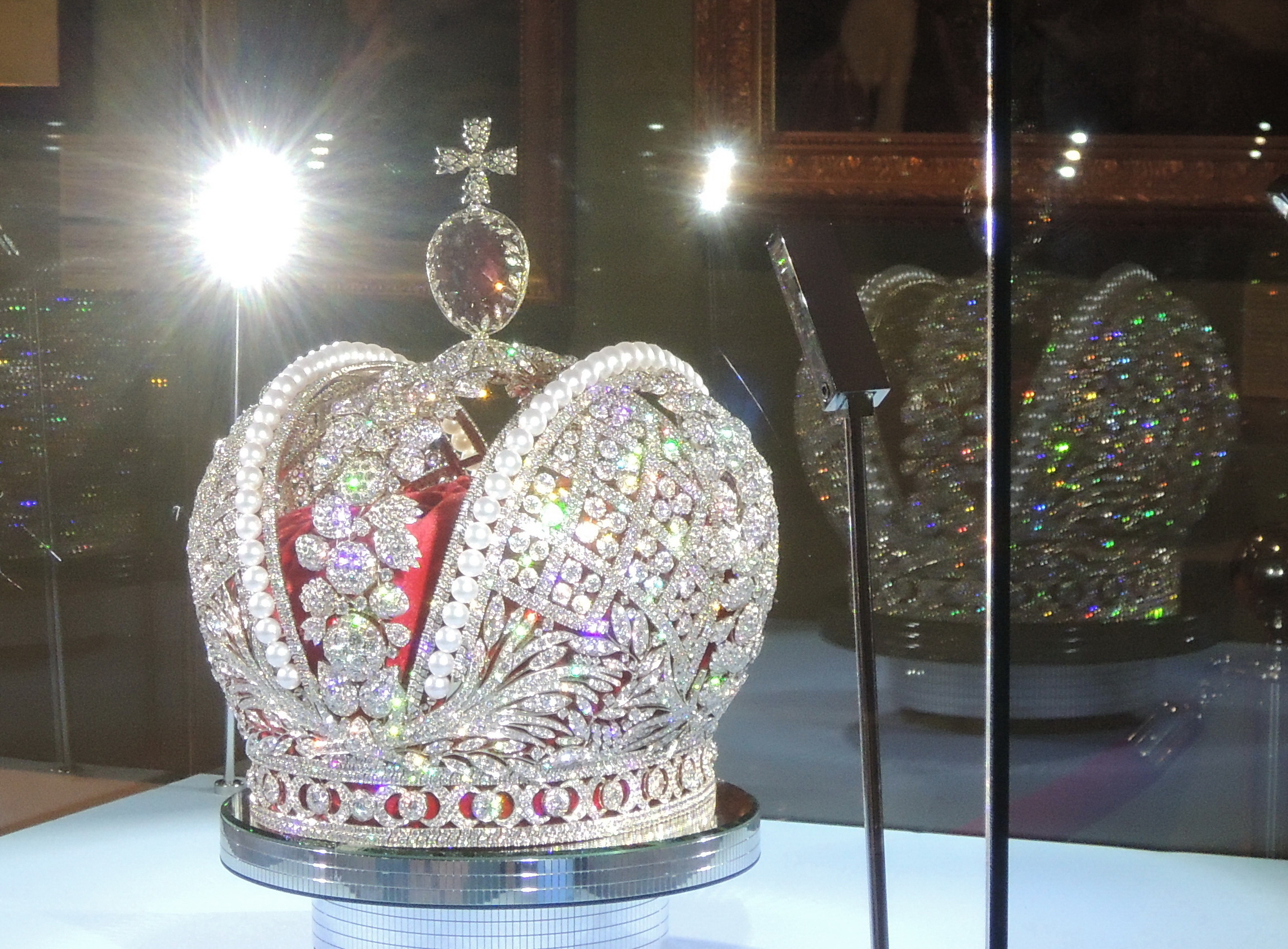 Jewelry project "Creation of Imperial Crown of Russia in modern interpretation" The project is timed to celebrate the 50th anniversary of the diamond industry in Russia, the flagship of which is manufacturer Kristall and it is the 10th anniversary of the Smolensk Diamonds group. The new crown was made of white gold (in original is used silver) and 11,426 diamonds (in original 4,936) of ideal faceting and quality characteristics. The spinel in the replica was replaced with a unique natural red tourmaline with a mass of about 400 karats. Read more